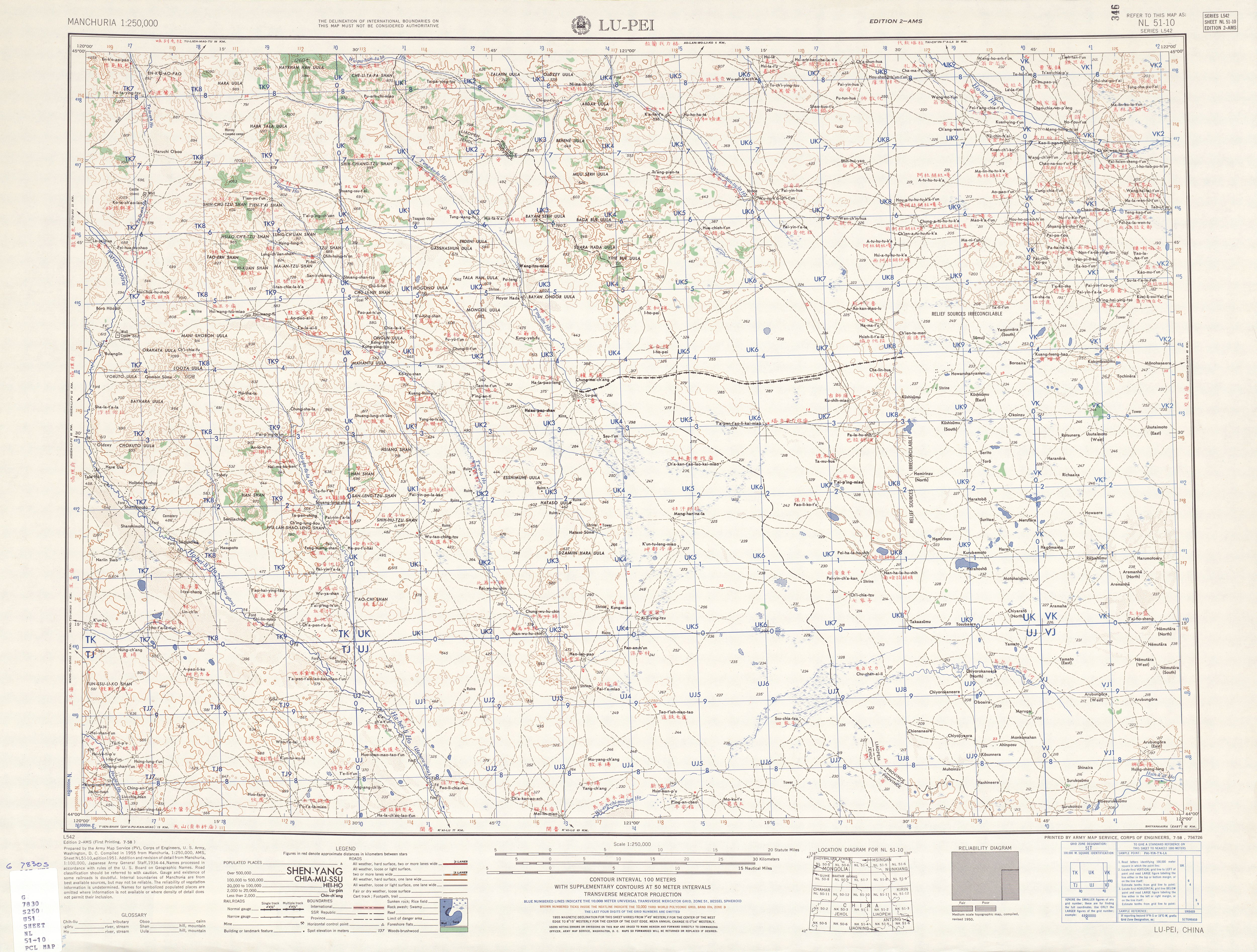 Manchuria AMS Topographic Maps